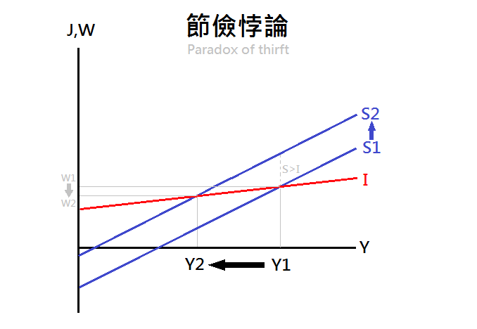 Paradox of thrift